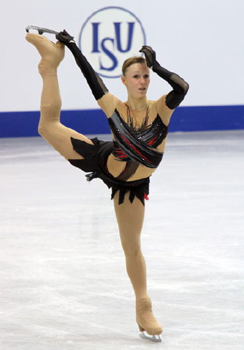 Oksana GOZEVA performs spiral as part of her spiral sequence during her short program at the 2009 World Junior Figure Skating Championships